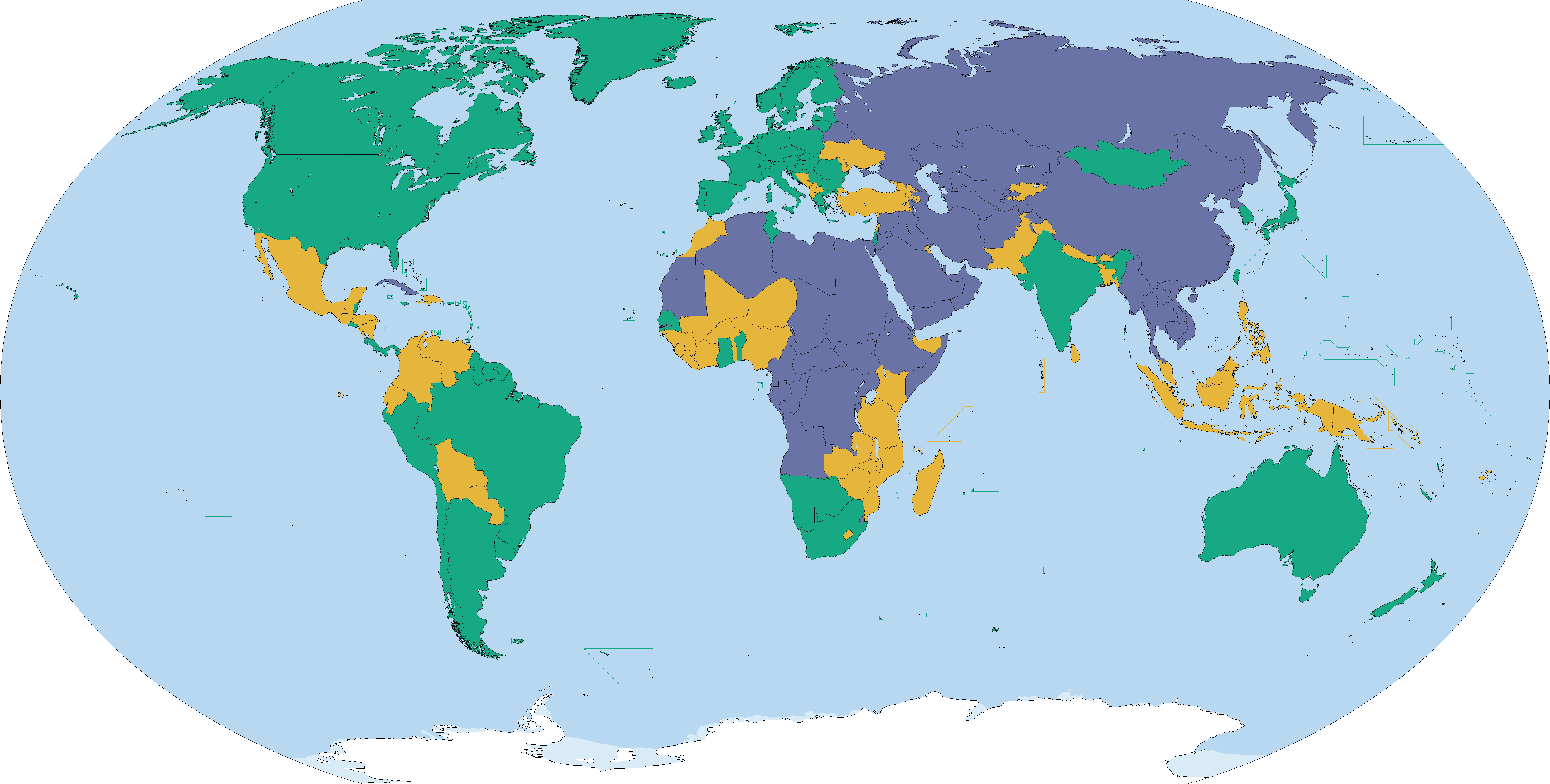 Country ratings from Freedom House's Freedom in the World 2016 survey, concerning the state of world freedom in 2015.[1] Free (86) Partly Free (59) Not Free (50) See also: File:2015 Freedom House world map.png, File:2013_Freedom_House_world_map.svg